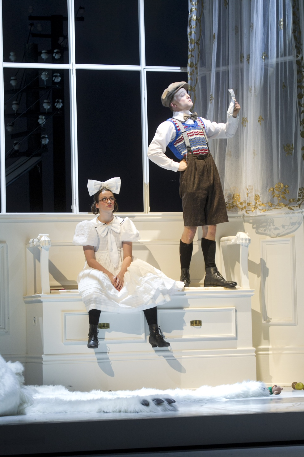 Photo of the specimen for the first staging of Erich Kästner's piece 'Klaus in the Cabinet or the wrong Christmas' at the Staatsschauspiel Dresden 2013. Seen in the photos: Nina Gummich as Kläre and Jonas Friedrich Leonhardi as Klaus.